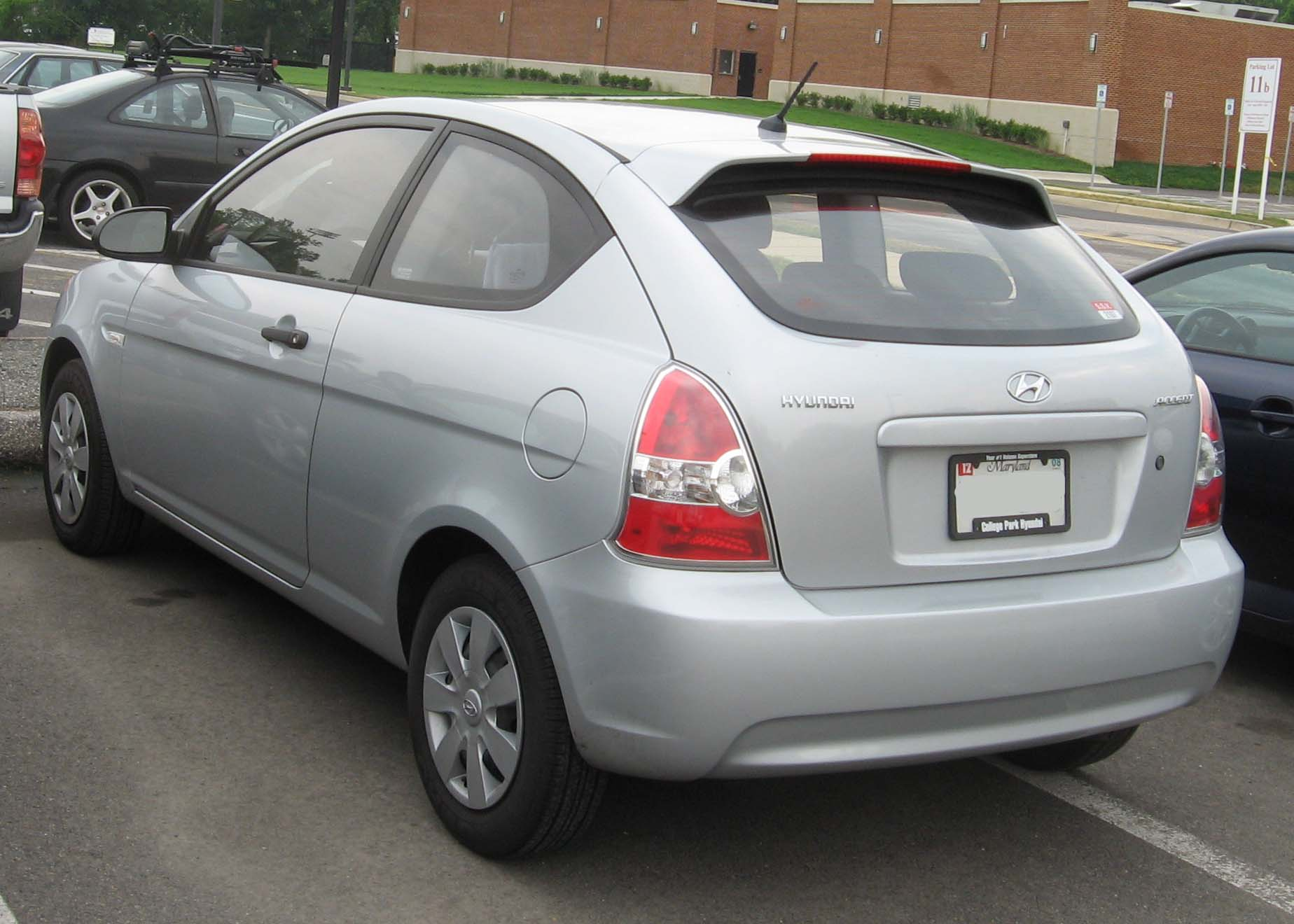 2006-2007 Hyundai Accent photographed in USA.